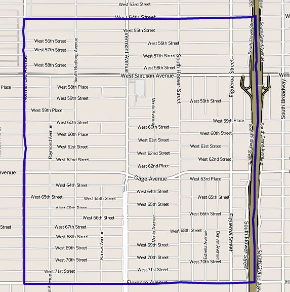 A map of the Vermont-Slauson neighborhood of South Los Angeles, California. This map may be incomplete, and may contain errors. Don't rely solely on it for navigation.